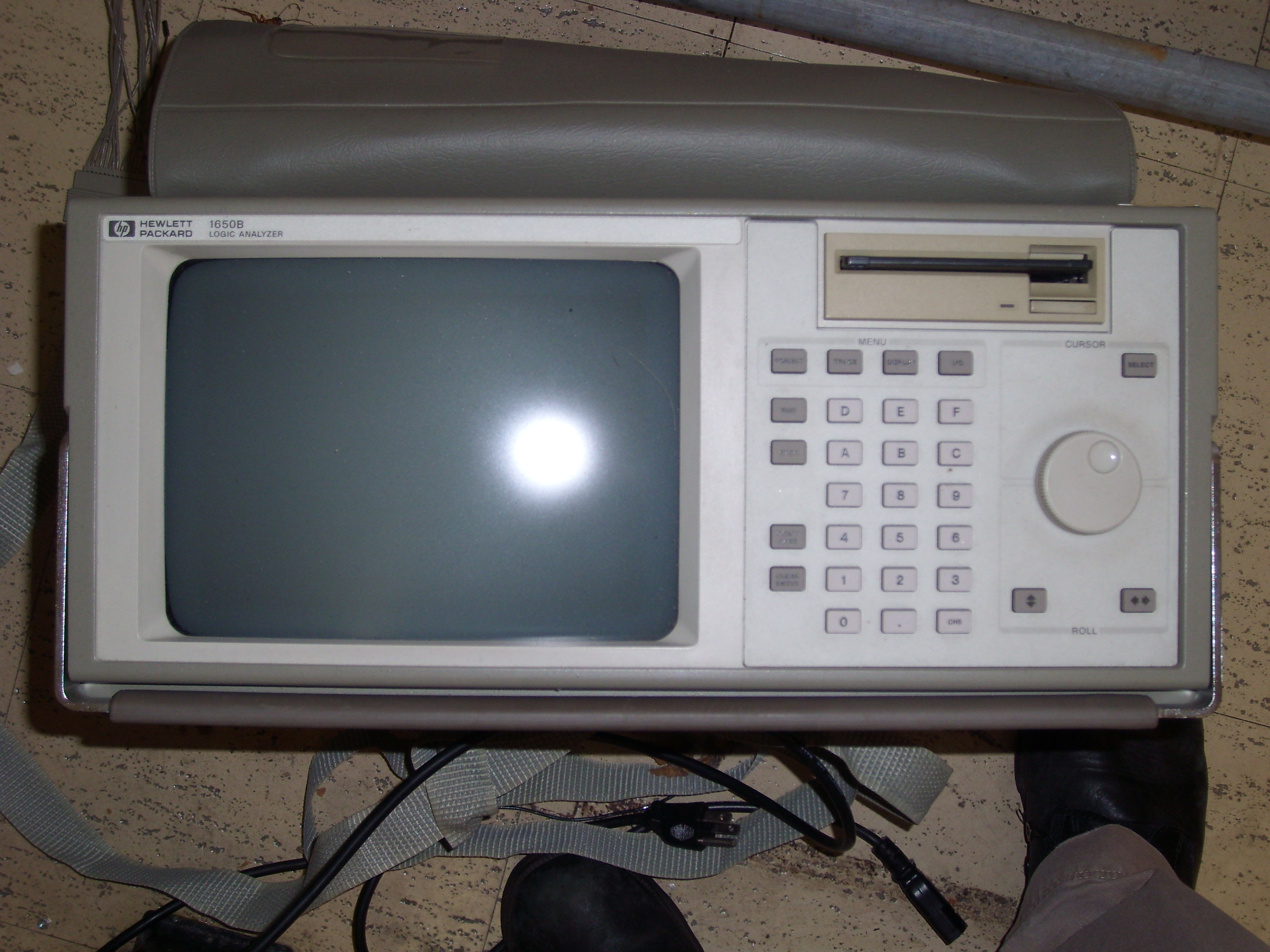 HP 1650B digital logic analyzer front panel